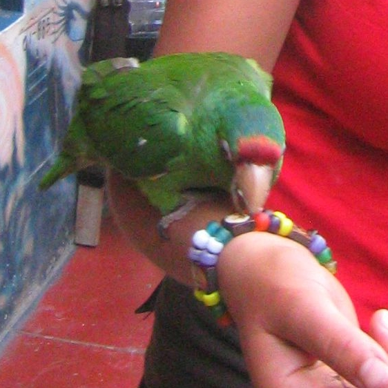 Chapman's Parakeet Aratinga mitrata, captive, near Machu Picchu, Cusco, Peru.